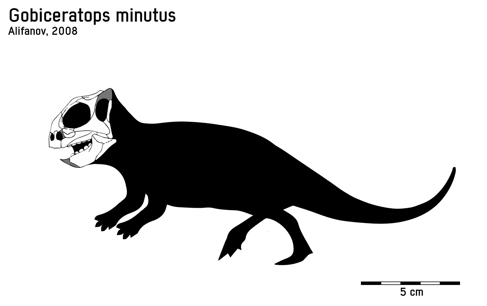 Gobiceratops minutus, skeletal reconstruction